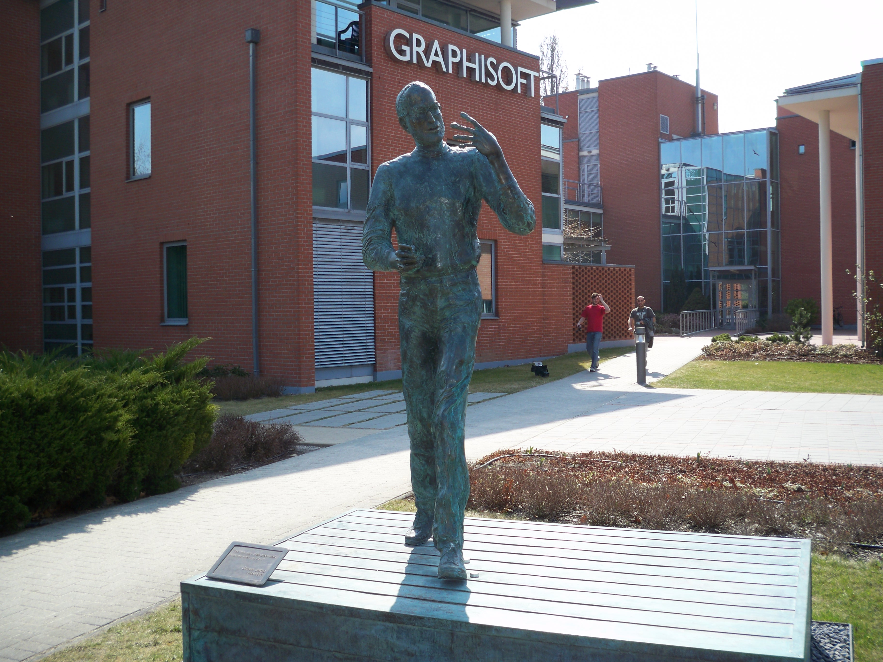 A bronze statue of Steve Jobs in Budapest